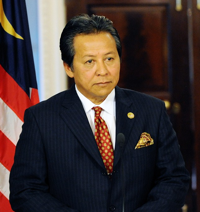 U.S. Secretary of State Hillary Rodham Clinton hosts a bilateral meeting with Malaysian Foreign Minister Y.B. Datuk Anifah bin Haji Aman in the Treaty Room of the U.S. Department of State in Washington, DC.